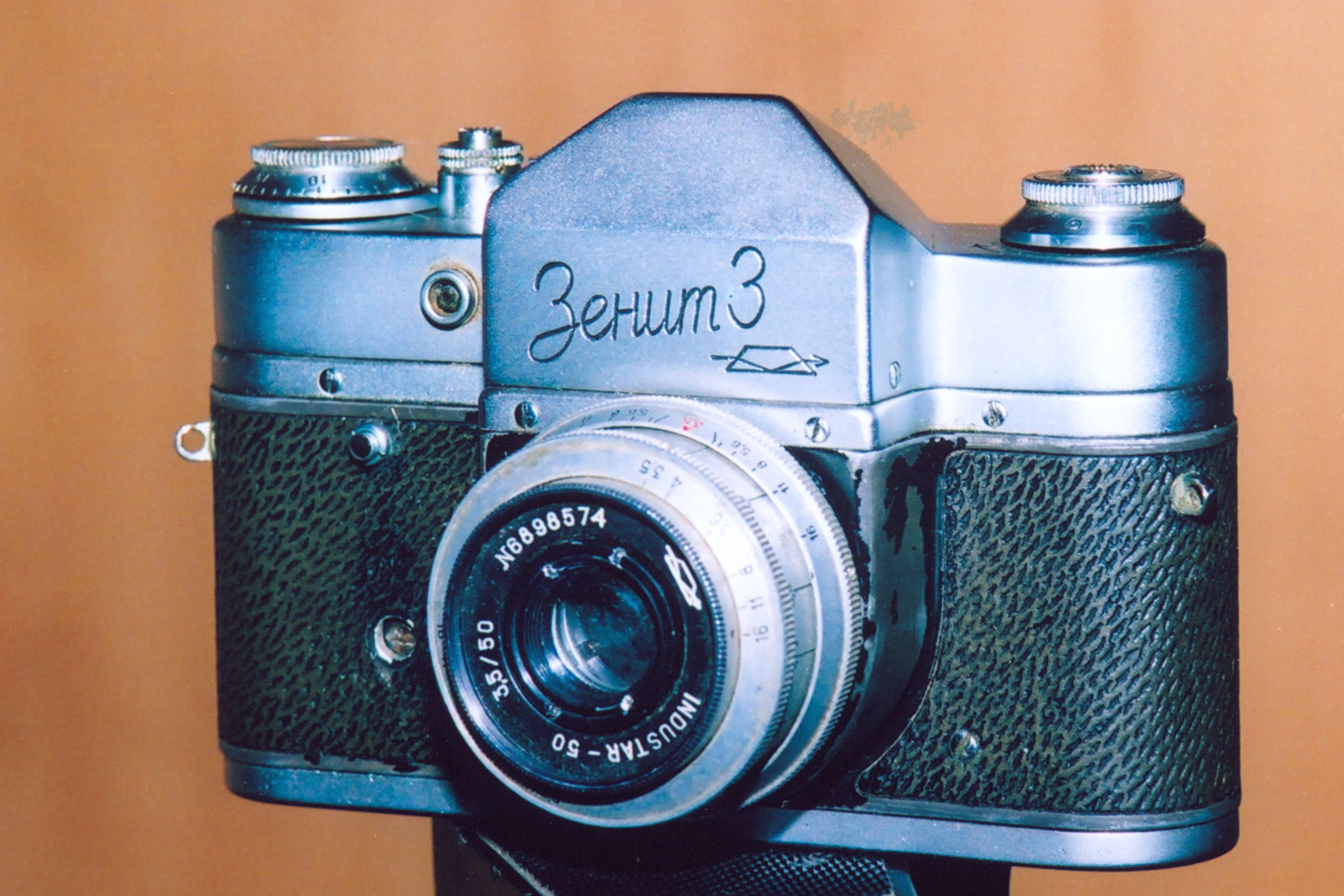 Фотоаппарат Зенит-3